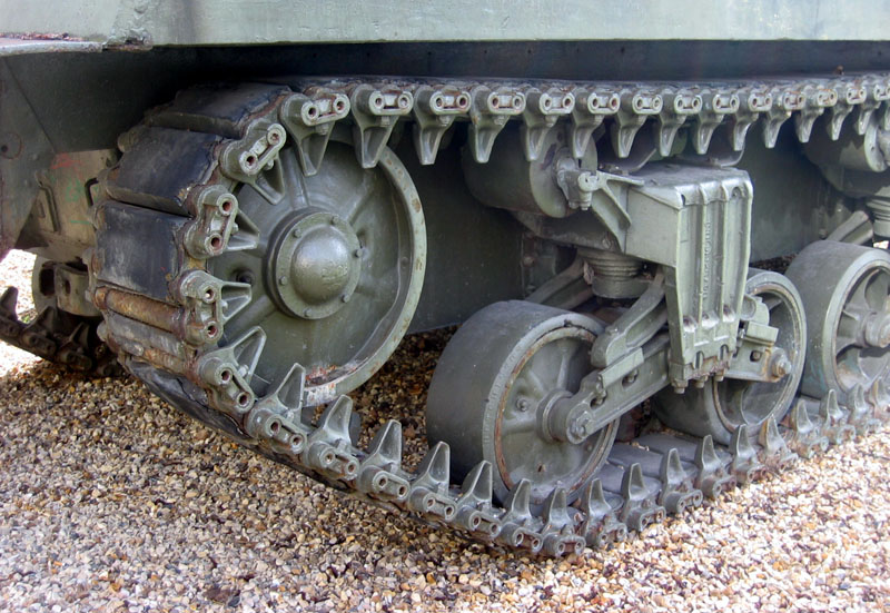 Carterpillar track of a Sherman tank Personal picture